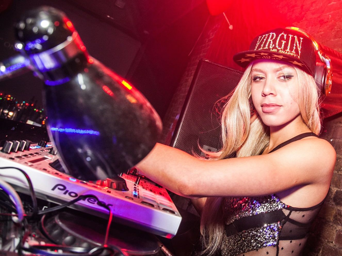 DJVIRGIN is a young talented female DJ, Based in London, Born in a Brazilian and African family. DJVIRGIN is known, by her vibrant and positive energy on the dance floor, with her multicultural unique mix of music. DJVIRGIN fell in love with music from her early age, starting her music knowledge on the Classical World passing through the Jazz World and music’s fall in love with her ever since. DJVIRGIN styles cover everything that make the public “move” with her multicultural music influence of sounds is possible to listen a very vibrant drops on her set. Her massive charisma and energy influence the crowd environment instantly. Taking the electronic world head and making the dance floor very high on positive vibrations , this girl already calls home the DJ booth.